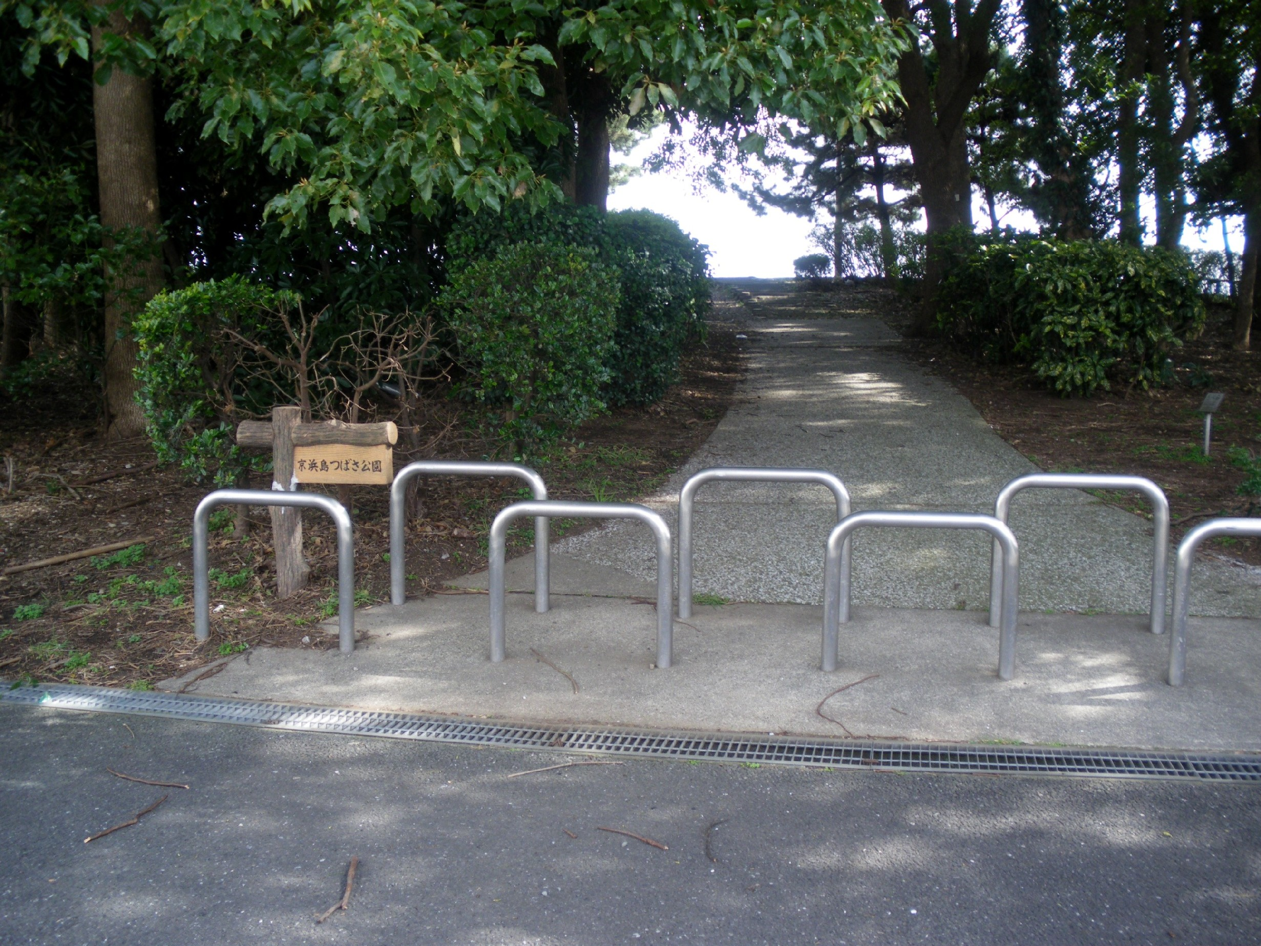 Keihinjima Tsubasa Park(Ota,Tokyo)